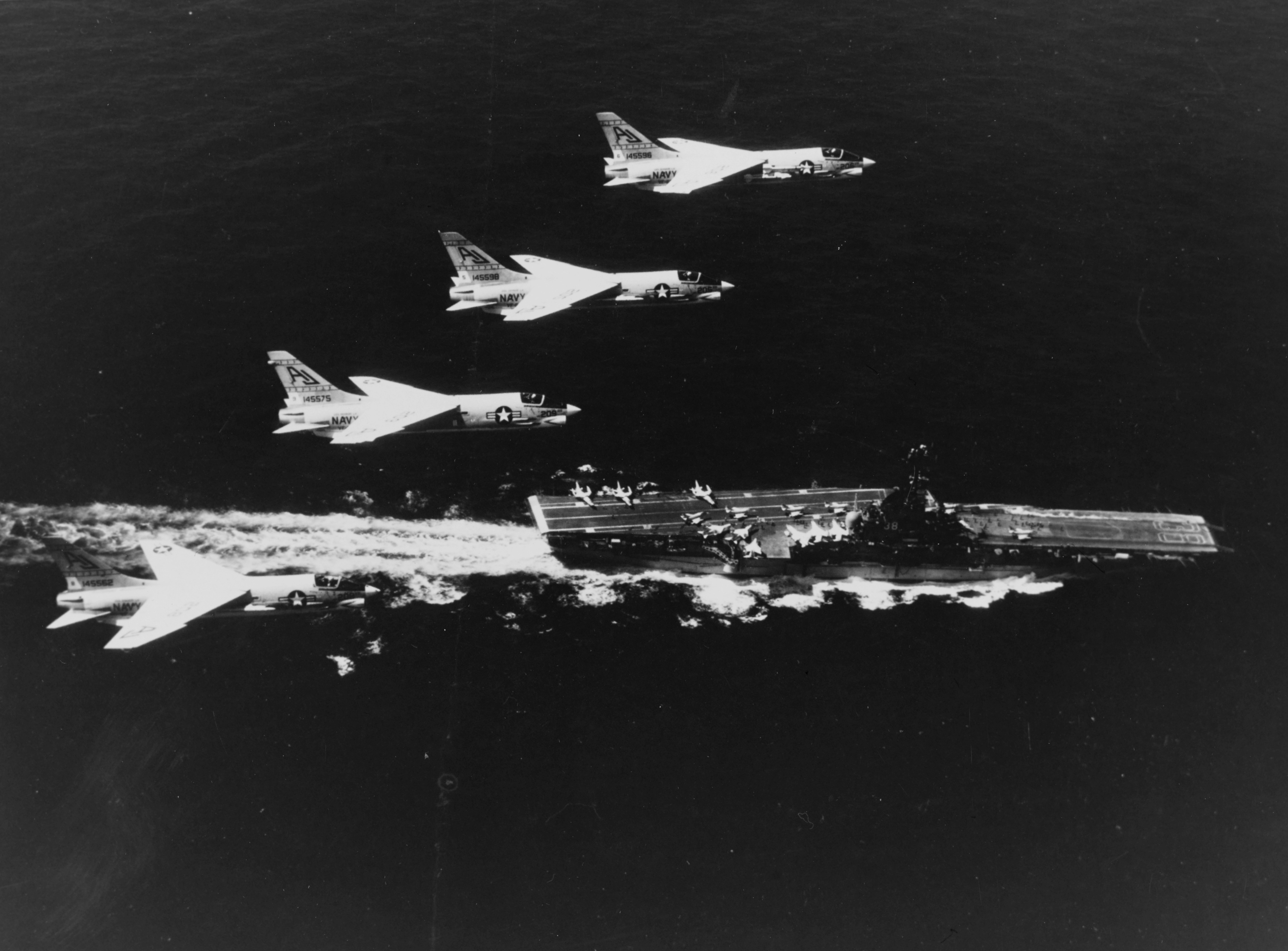 Four U.S. Navy Vought F-8C Crusader (BuNo 145562, 145575, 145596, 145598) of Fighter Squadron 62 (VF-62) "Boomerangs" pass over the aircaft carrier USS Shangri-La (CVA-38). VF-62 was assigned to Attack Carrier Air Wing 8 (CVW-8) aboard the Shangri-La for a deployment to the Mediterranean Sea from 15 November 1967 to 4 August 1968.